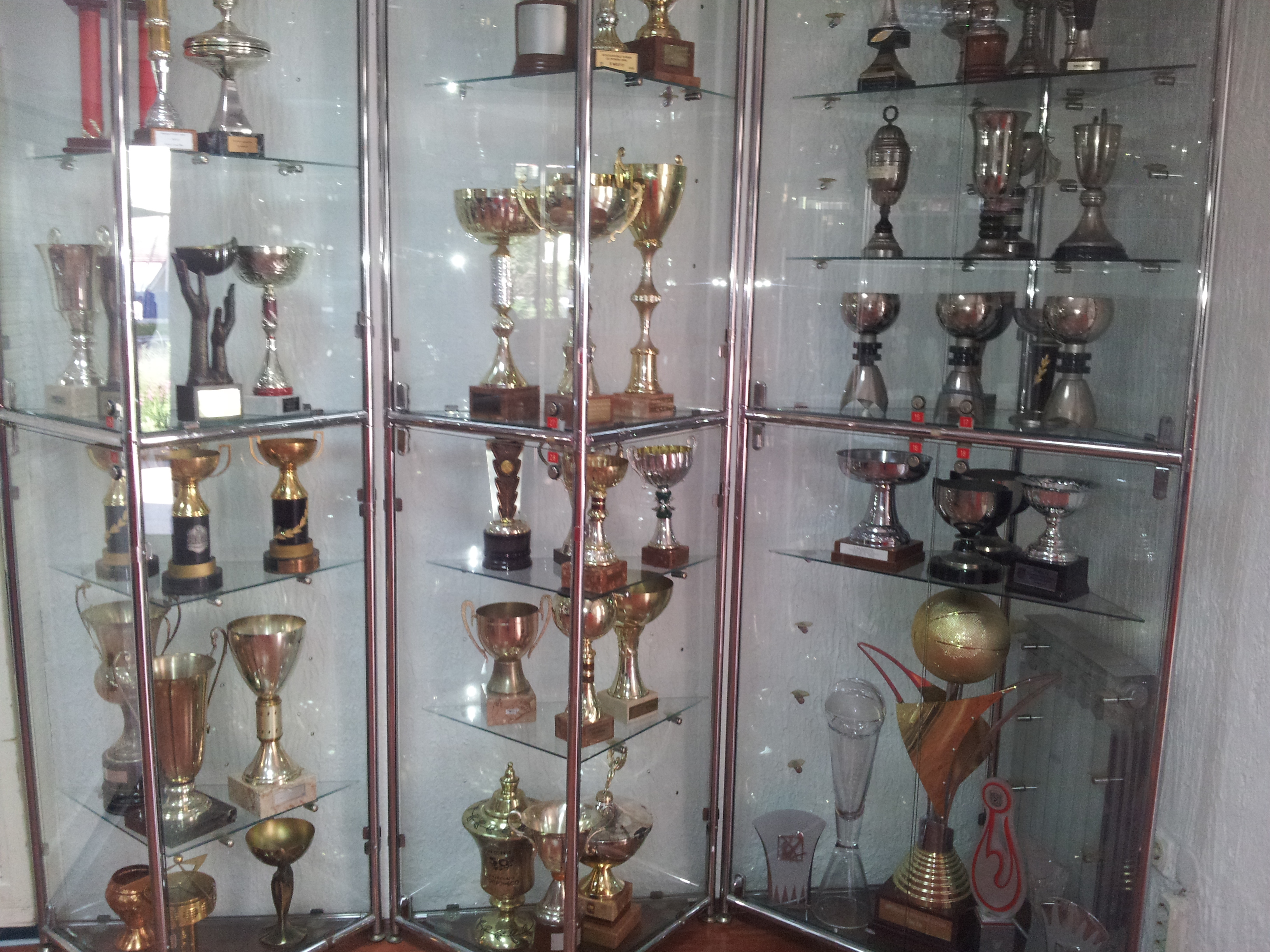 KK Crvena zvezda trophies